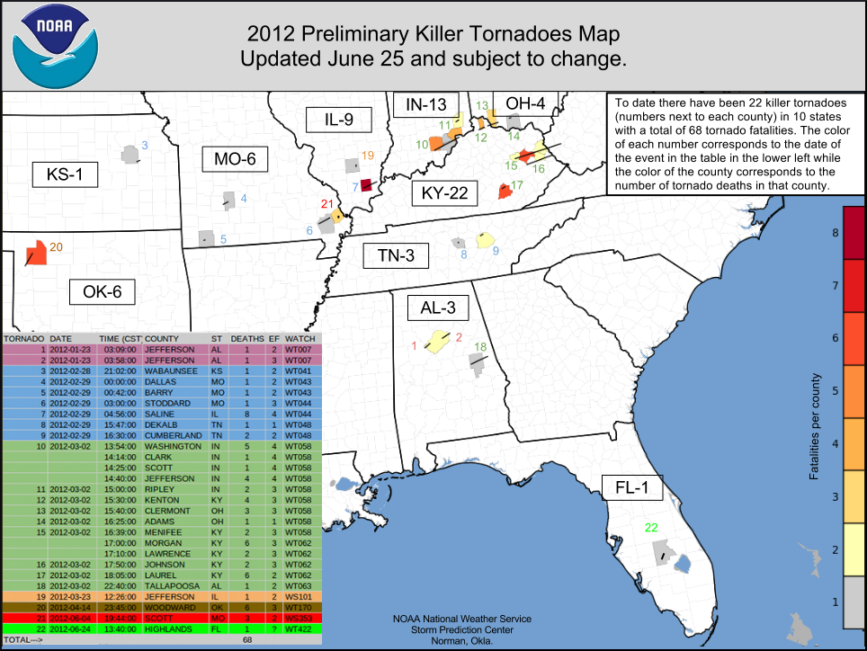 Preliminary map of killer tornadoes during 2012